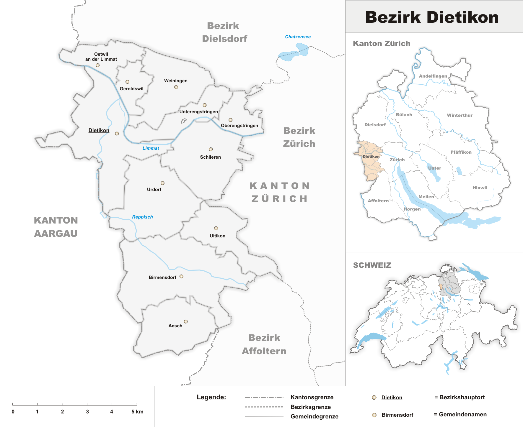 Municipalities in the district of Dietikon